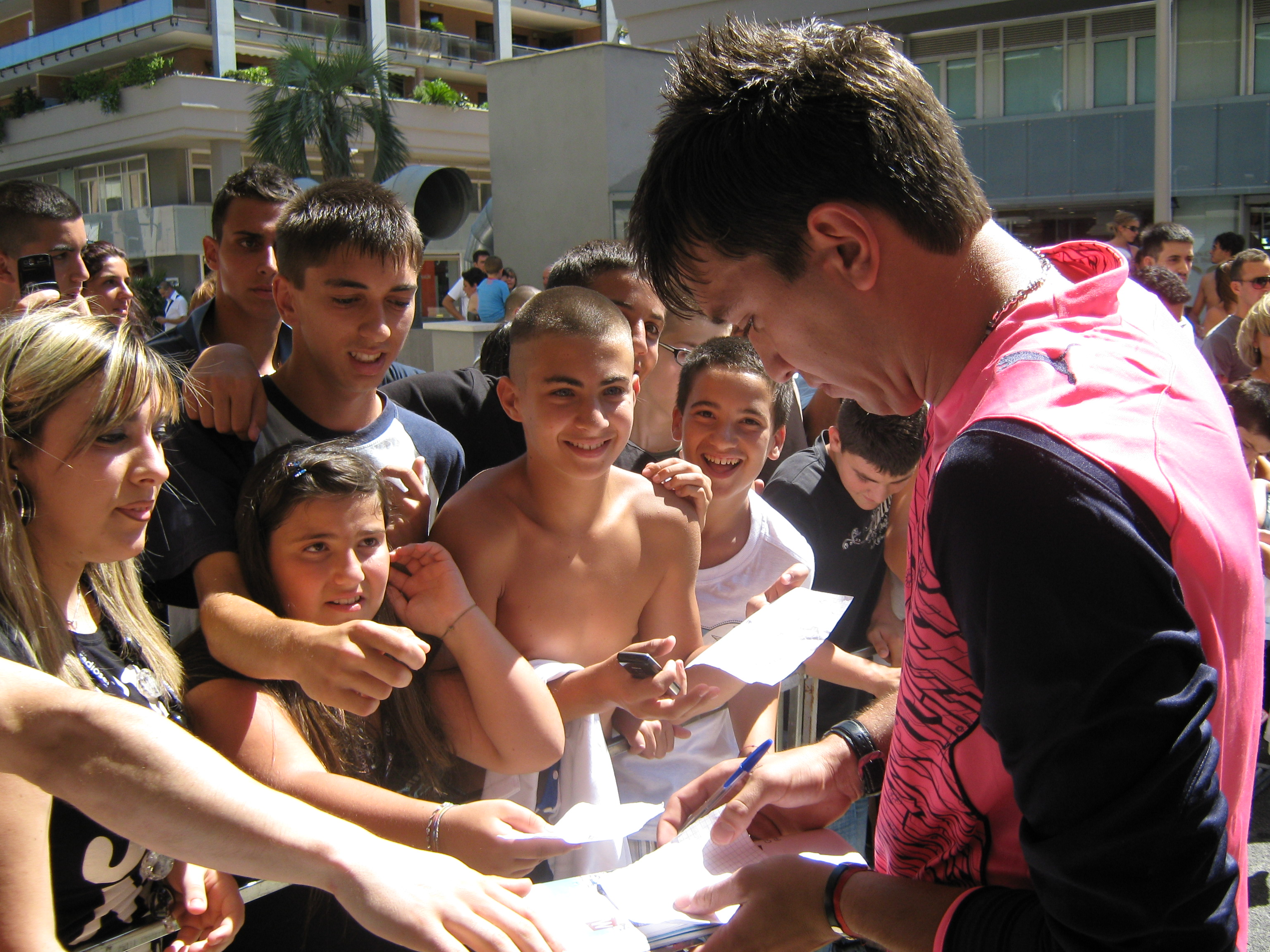 Fernando Mulsera signing autographs at the new kits' presentation on 08 July 2009.